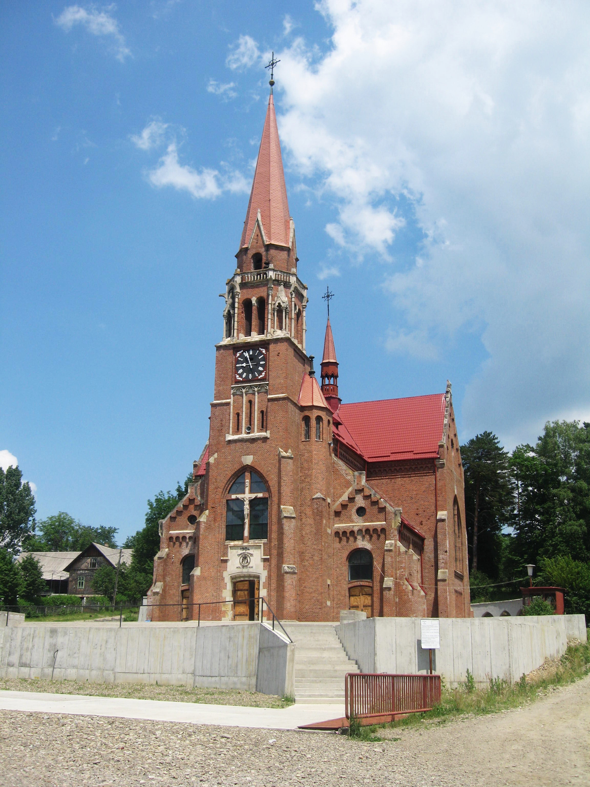 Roman-Catholic Church in Cacica, Suceava County, Romania